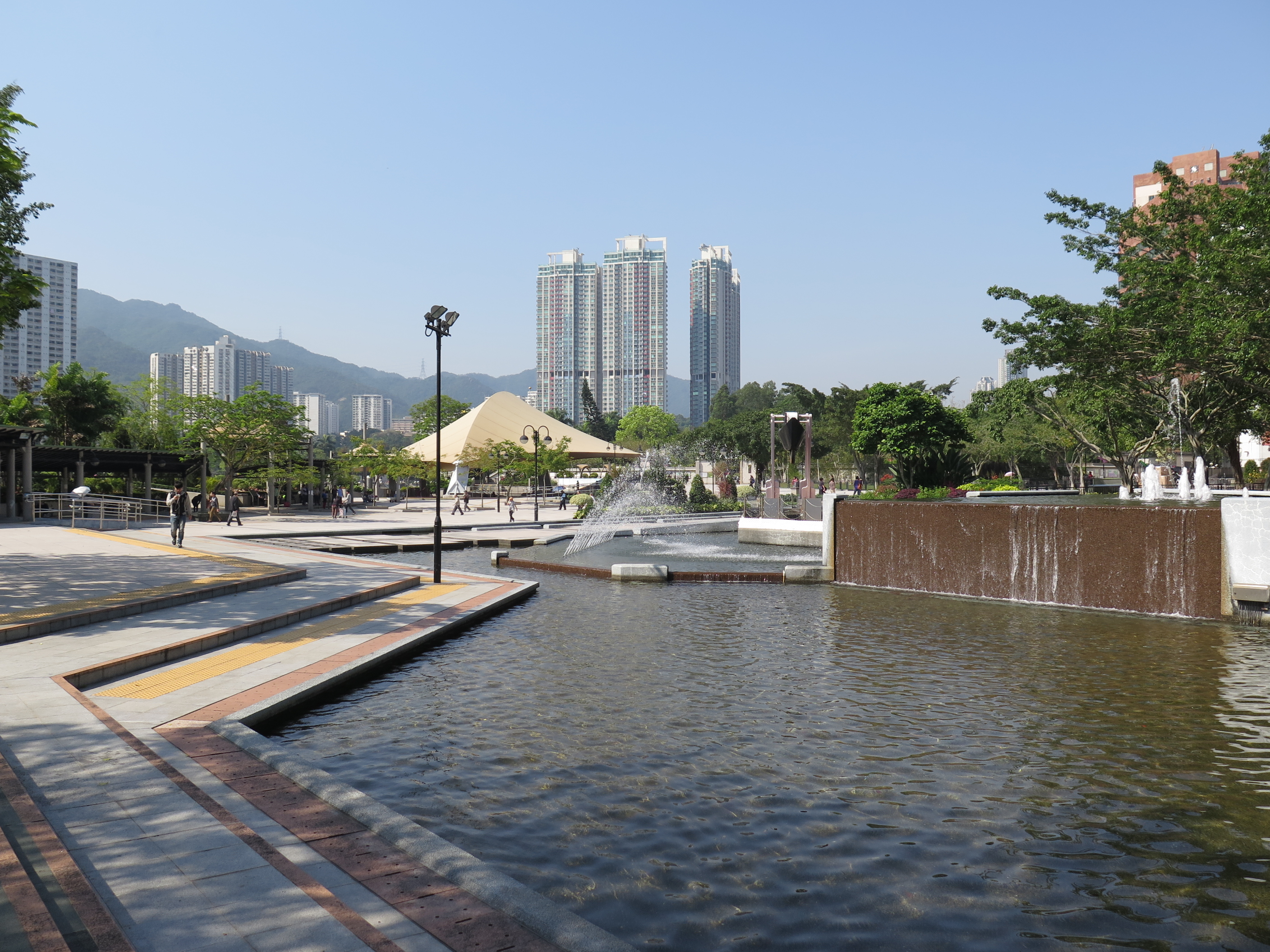 Sha Tin Park Plaza Pool